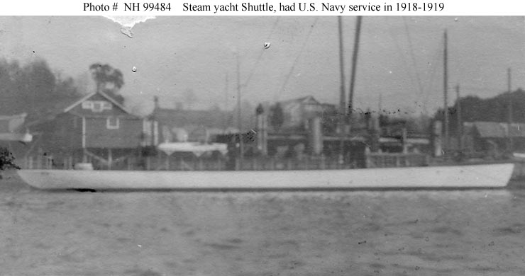 The private yacht Shuttle sometime before the entry of the United Statesinto World War I and prior to her United States Navy service as the patrol vessel